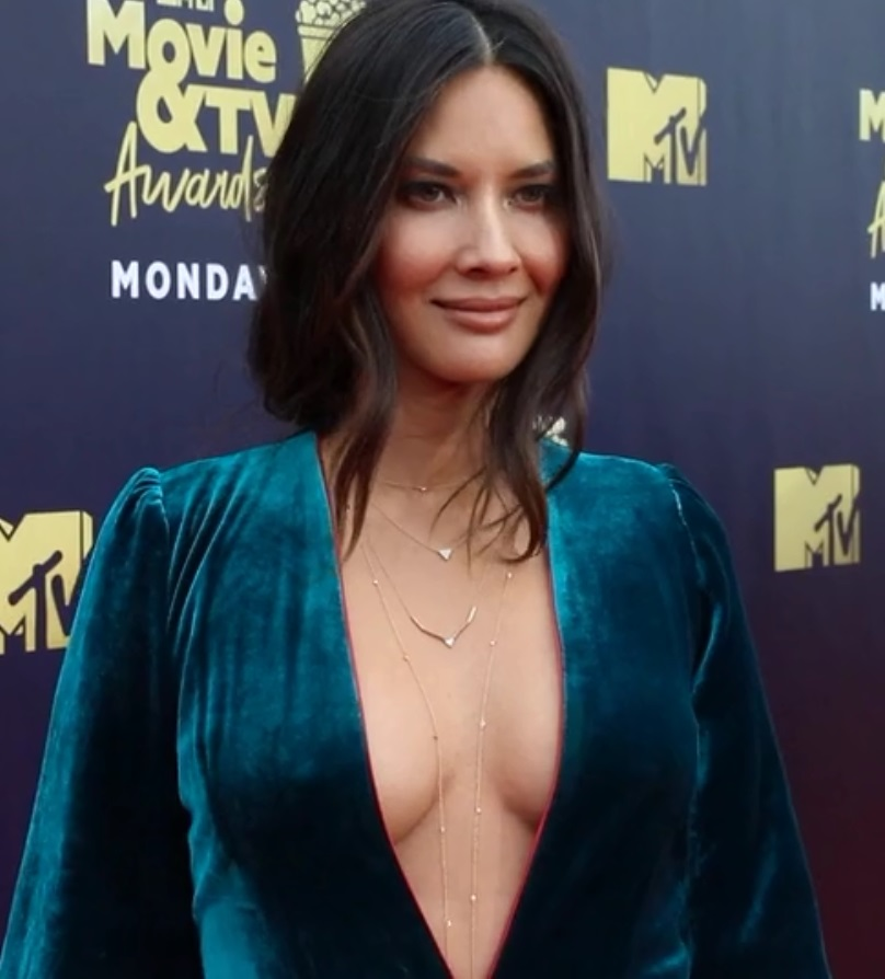 Olivia Munn at 2018 MTV Movie & TV Awards